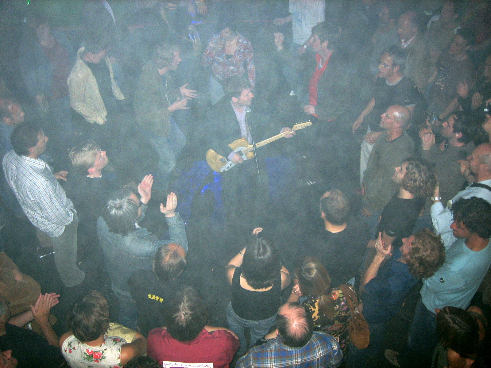 Steve Wynn @ Roots of Heaven VI, [Patronaat], [Haarlem], [The Netherlands], 14 May 2006